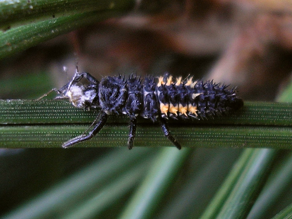 Larva of ladybird species Harmonia quadripunctata (4th instar)